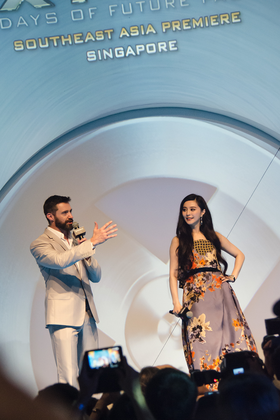 X-Men Singapore Gala Premiere 2014